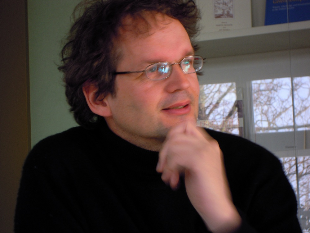 Martin Mulsow